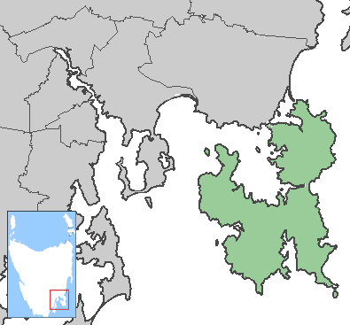 Map of SE Tasmanian LGA's feat Tasman